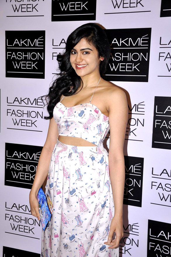 Sharma grace Nishka Lulla's show at LFW 2014